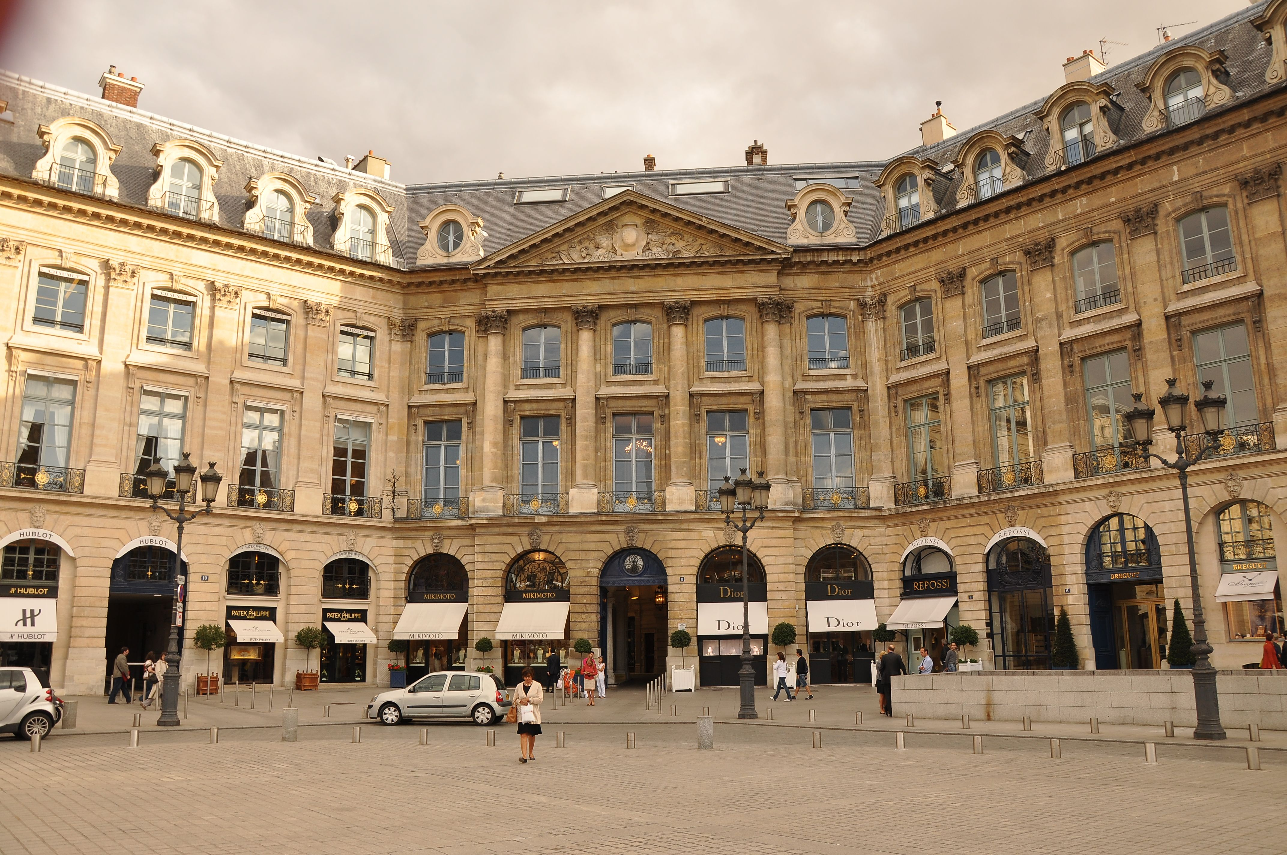 Hôtel Delpech de Chaunot at 8 place Vendôme in the 1st district of Paris, France